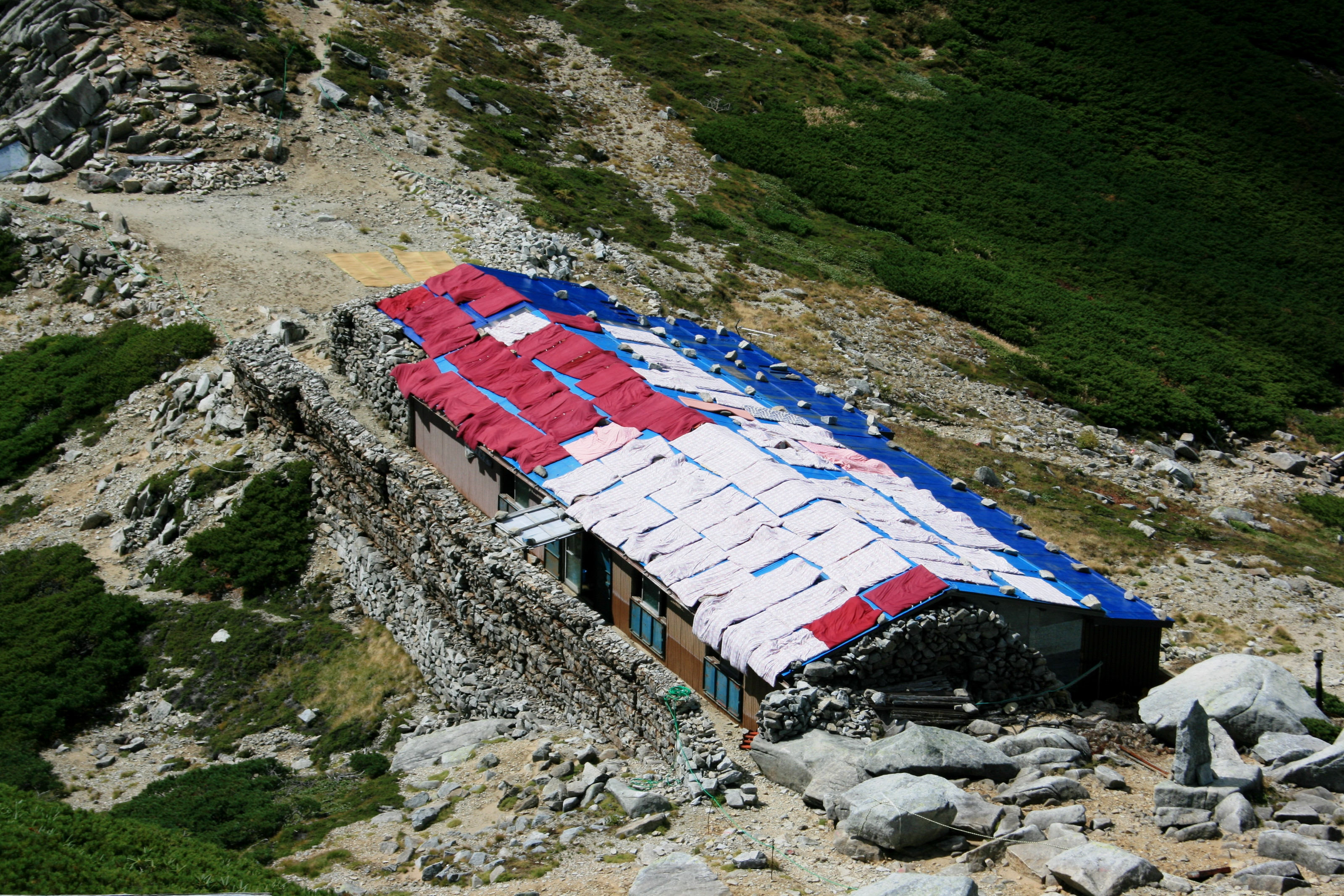 Tamanokubo Sanso, Mountain hut with Futon on the roof in Mount Kisokoma, Nagano prefecture, Japan.